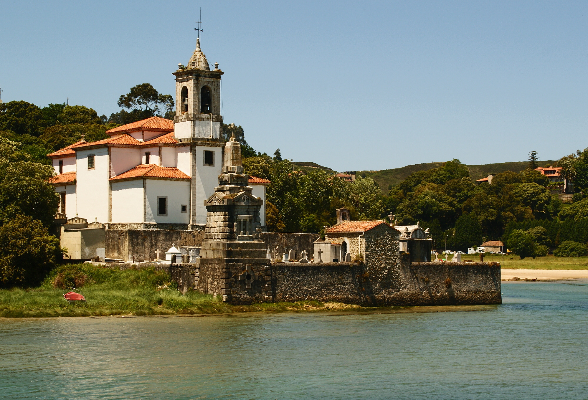 Church at Niembro in Asturia in Northern Spain. It is on a tidal bay. Crop of original File:Church at Niembro 3 com.jpg